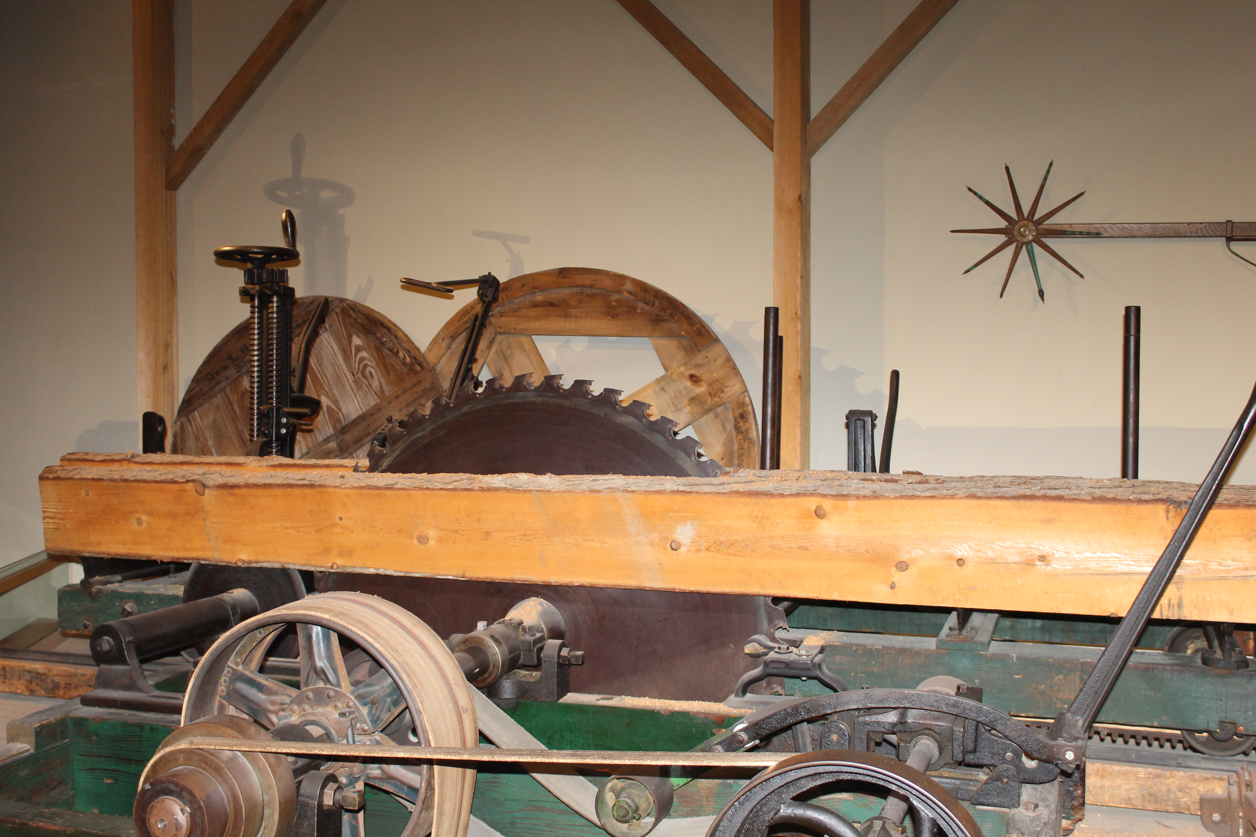 I took photo with Canon camera of large wood-cutting saw at Maine State Museum in Augusta, ME.